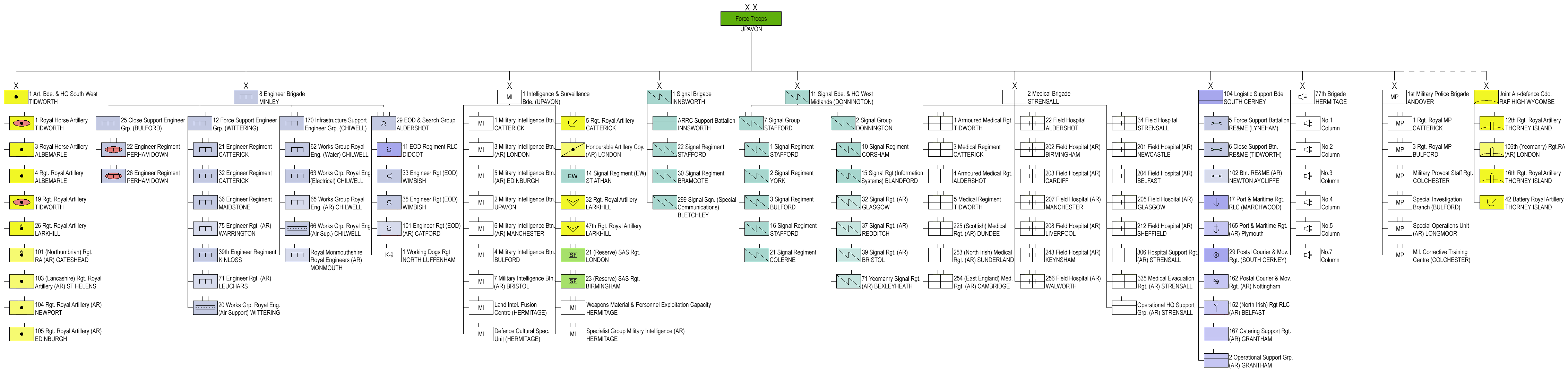 Structure of British Army Force Troops after the Army 2020 reform